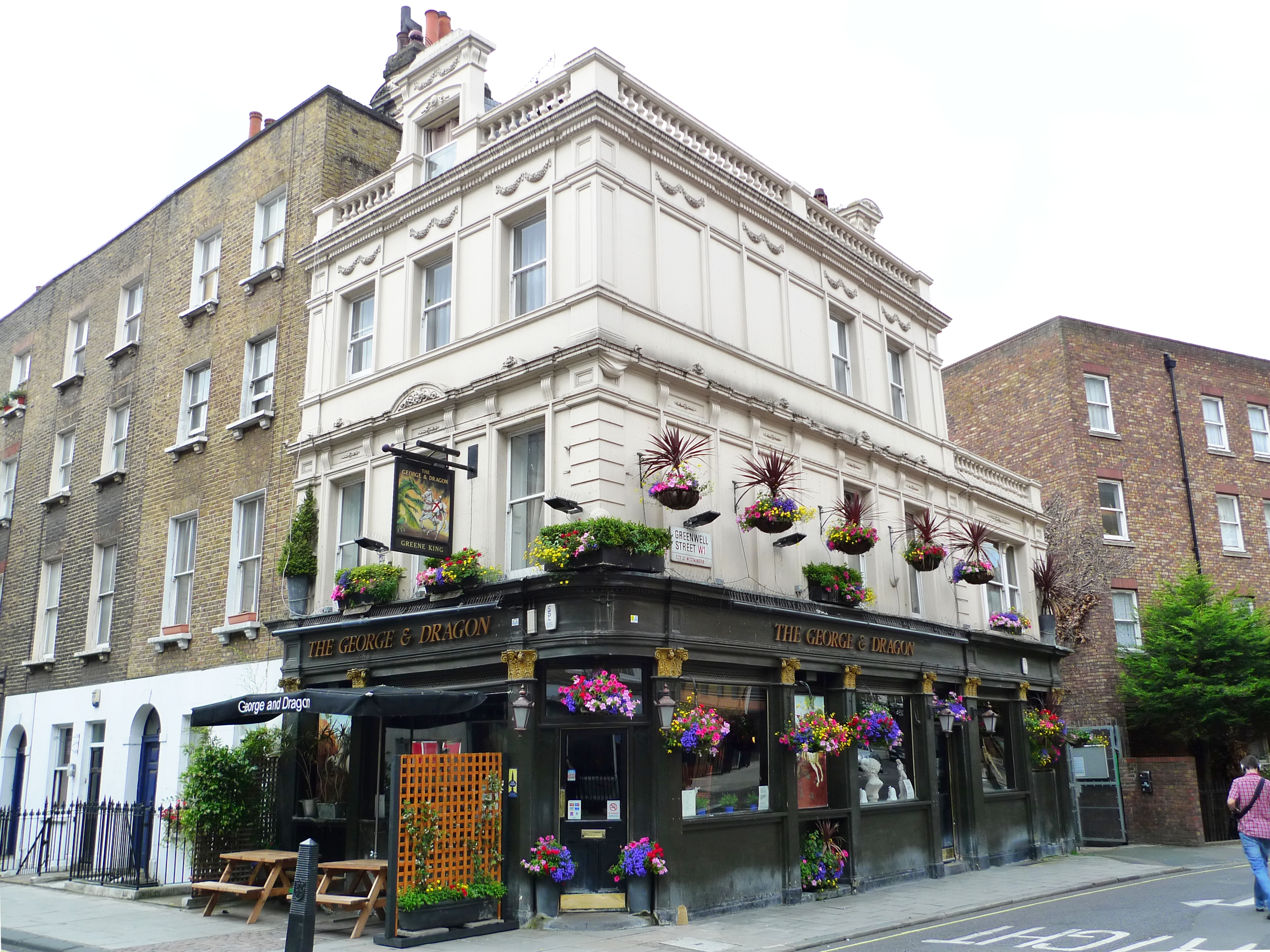 It's a nice enough pub, hidden away a bit but rather nice, even if you're not a huge fan of Greene King ales. Pretty flowers, which are even more extravagant in the summer. Address: 151 Cleveland Street. Former Name(s): The George (on the same site). Owner: Greene King; Charrington (former). Links: London Pubology